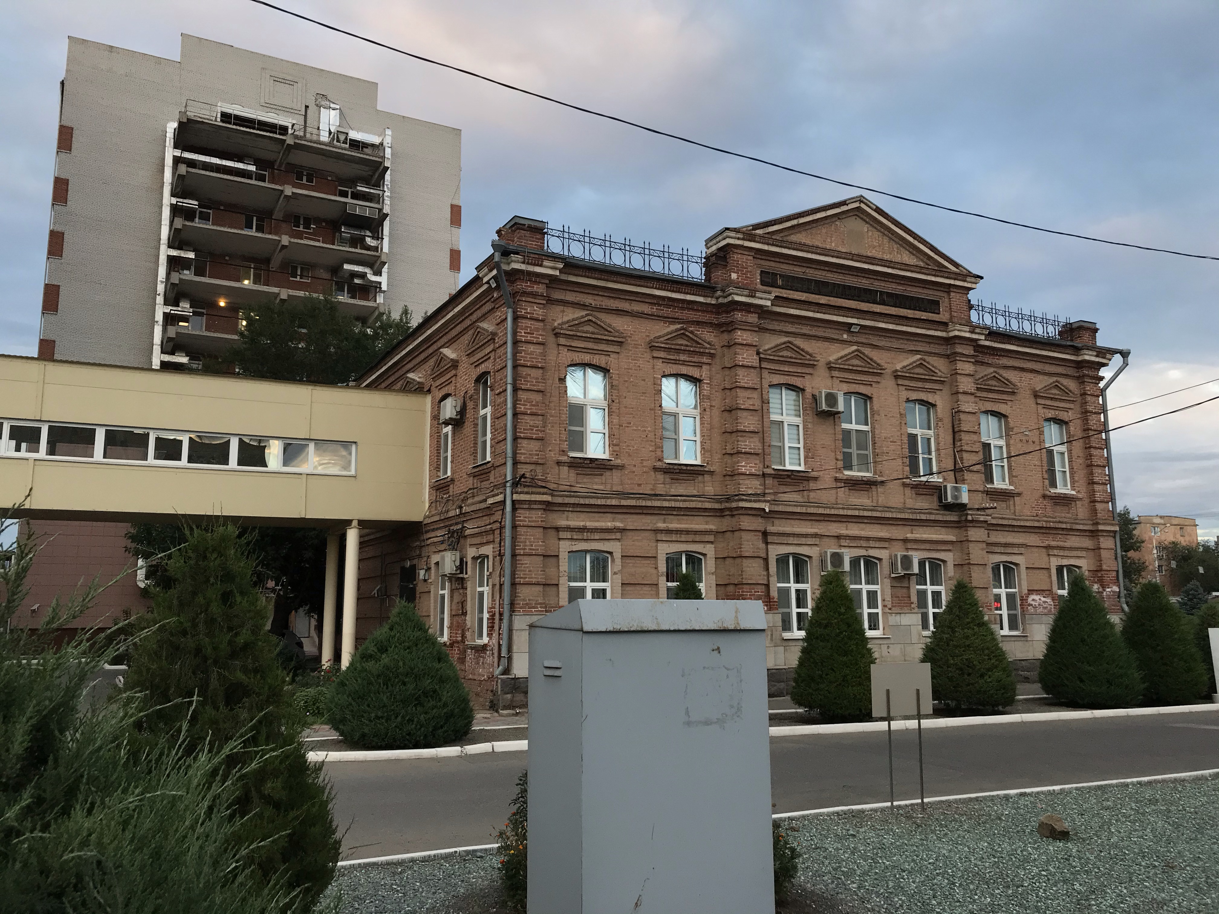 Aleksandro-Mariinskaya Hospital in Astrakhan